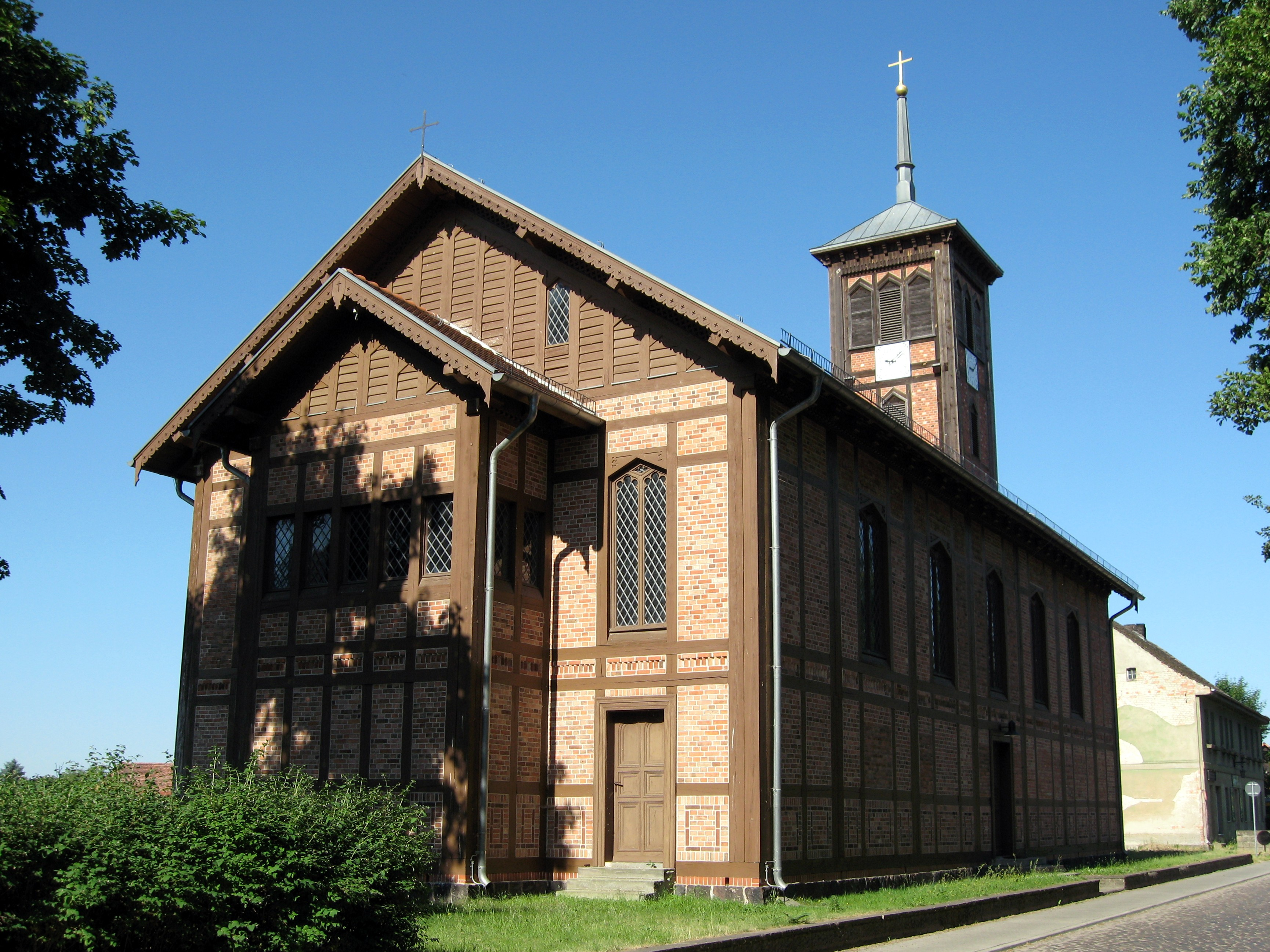 Church of Zerpenschleuse, Wandlitz municipality, Barnim district, Brandenburg state, Germany